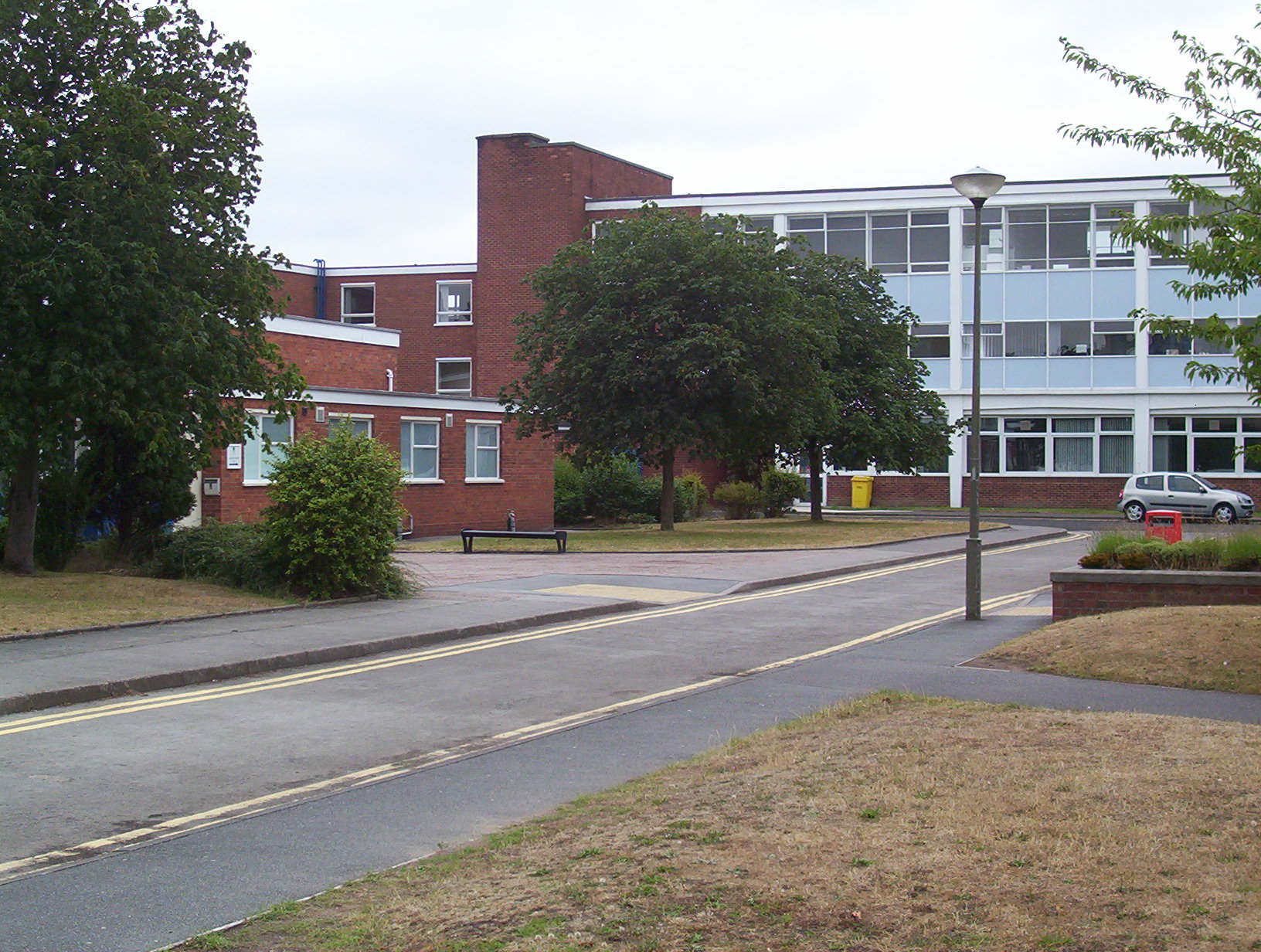 The Manchester Metropolitan University's Cheshire campus at Alsager, Cheshire, England, in the UK.